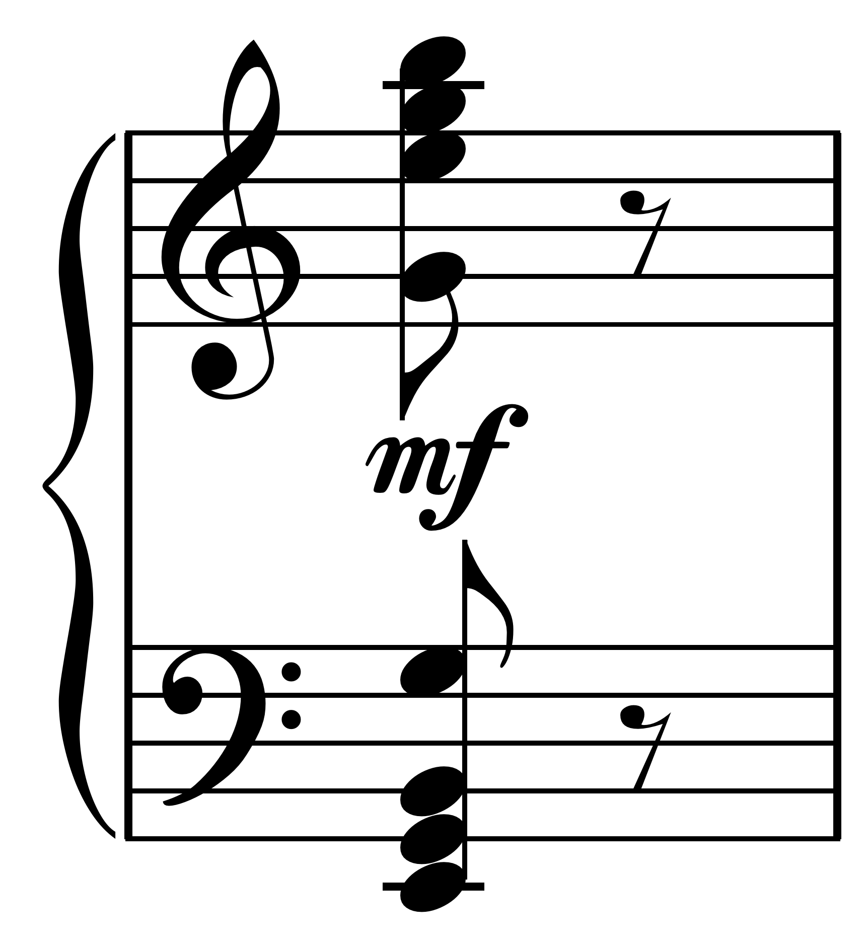 "Psalms chord" from Igor Stravinsky's Symphony of Psalms.